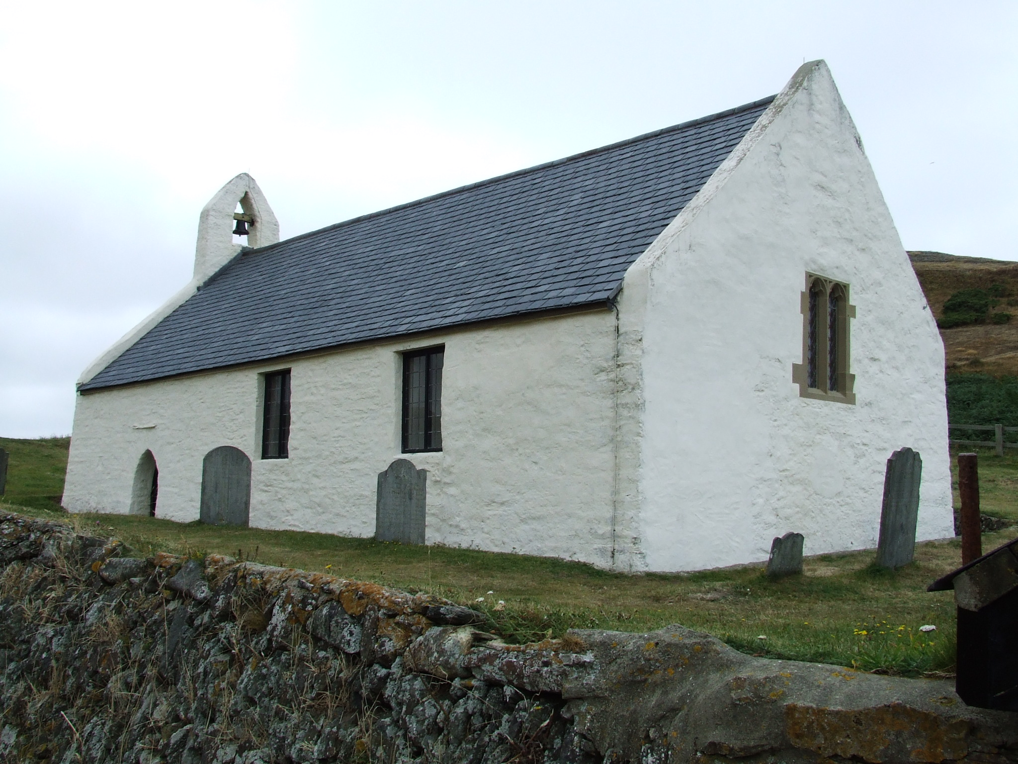 The 13 century church lies in the shadow of Foel-y-Mwnt, a spectacular promontory that overlooks Mwnt beach, north of Cardigan, Pembrokeshire